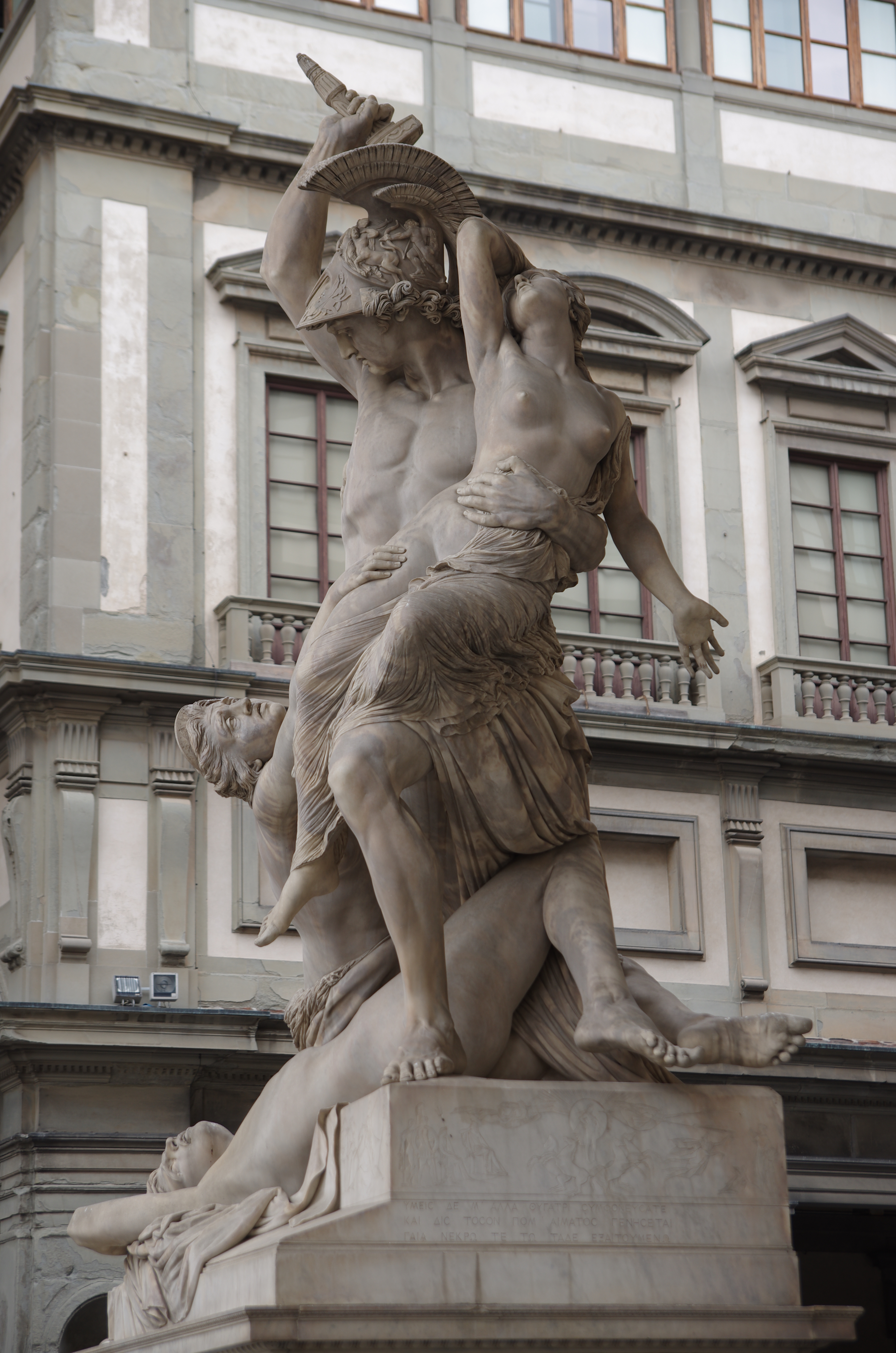 03 2015 Neottolemo abducts Polissena from Ecuba- sculptor Pio Fedi 1855 1865-Piazza della Signoria-Loggia dei Lanzi-the Uffizi Gallery-Giorgio Vasari-Doric order-arched triangular pediment (Florence) Photo Paolo Villa FOTO9264